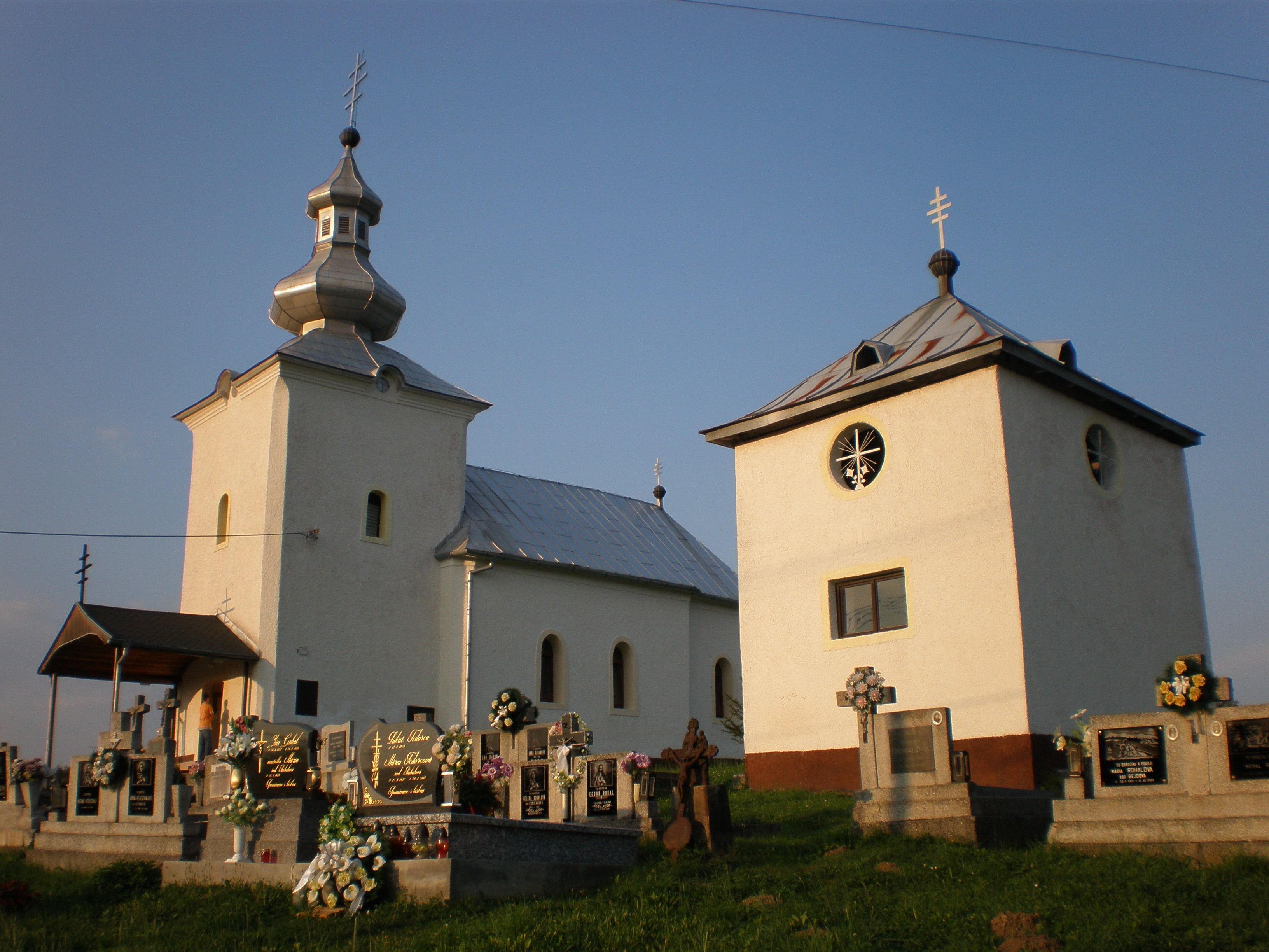 Church in Volica This medium shows the protected monument with the number 705-10436/0 in the Slovak Republic.